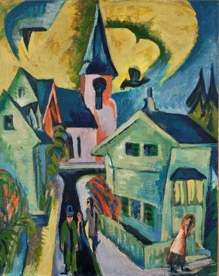 Königstein with red church